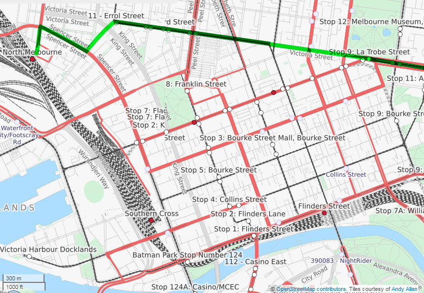 A map of the proposed creation of a North Melbourne to Richmond tram route. Dark green shows the currently existing tram routes, light green shows the proposed additions to create the route. Red lines show bus routes. Created with OpenStreetMap and .